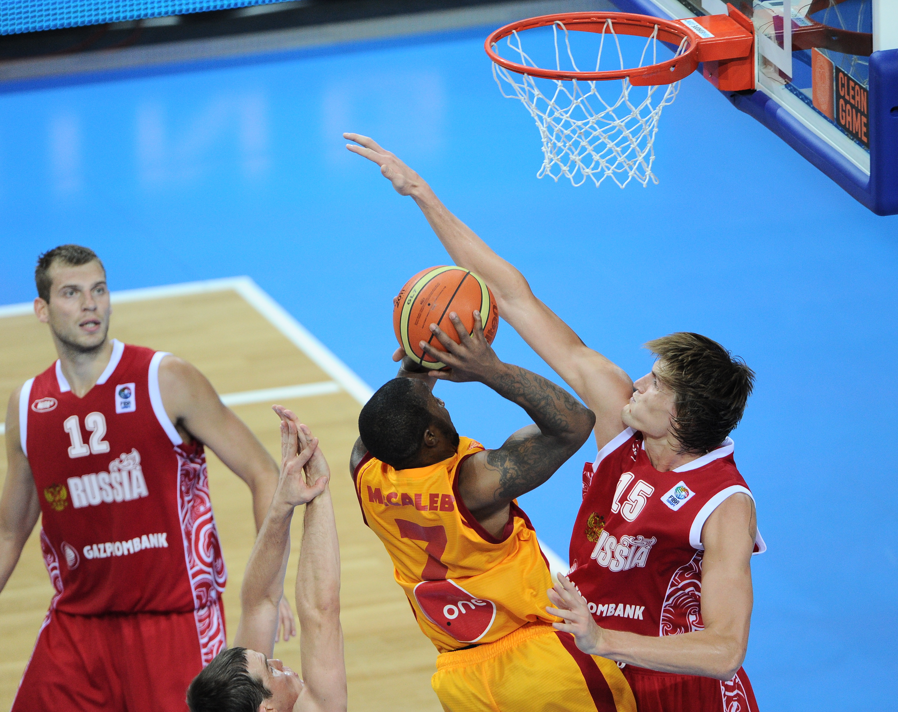 Macedonia national team against Russia team.